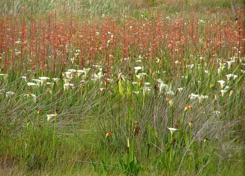 Uitkamp wetland reserve. City of Cape Town.